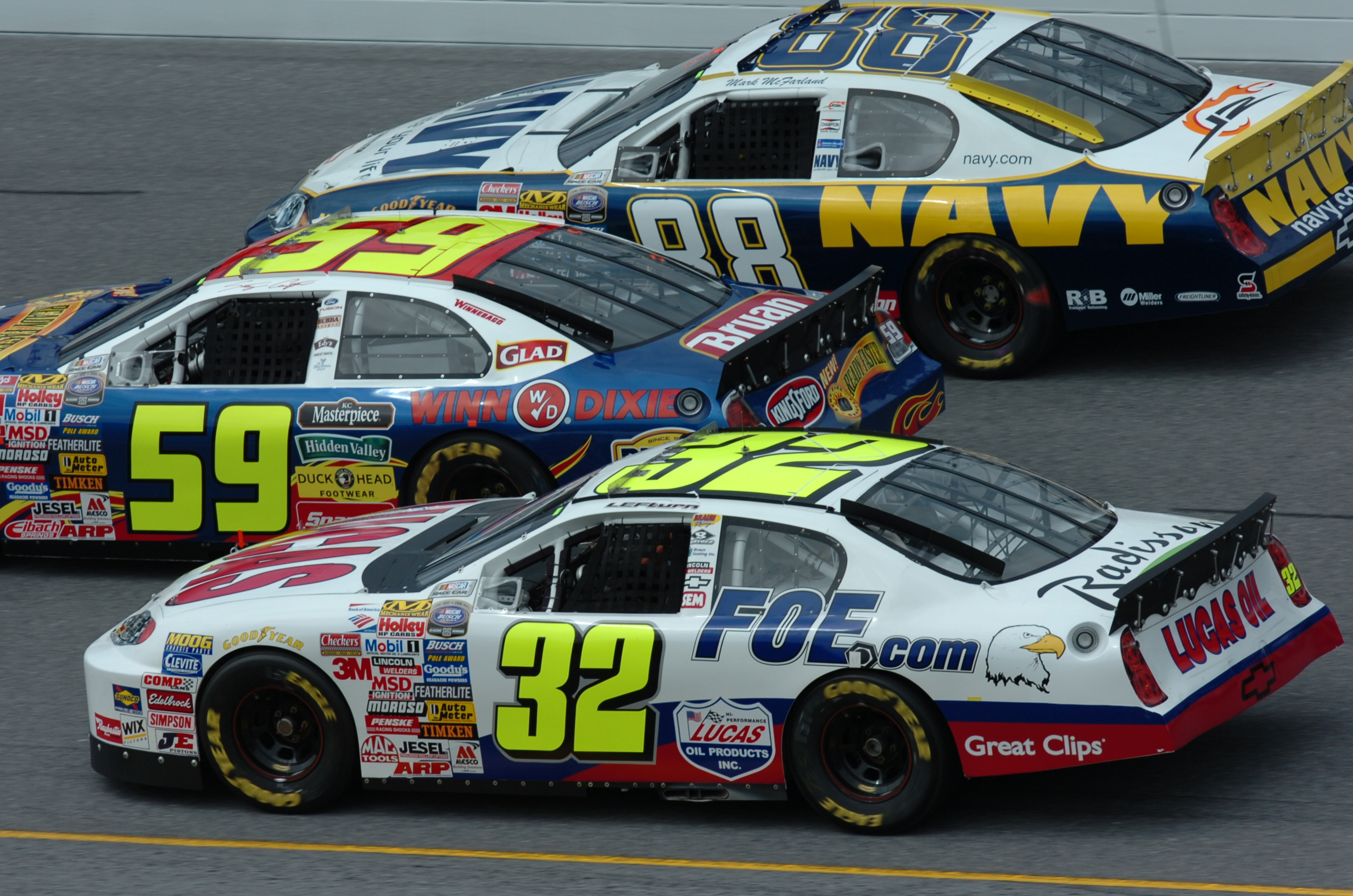 NASCAR racecars. #32 is Jason Leffler, #59 is Stacy Compton File Size: 2227 Height: 1632 Horizontal Resolution: 300 Keywords: 060115-N-5862D-155.JPG,Daytona_Race